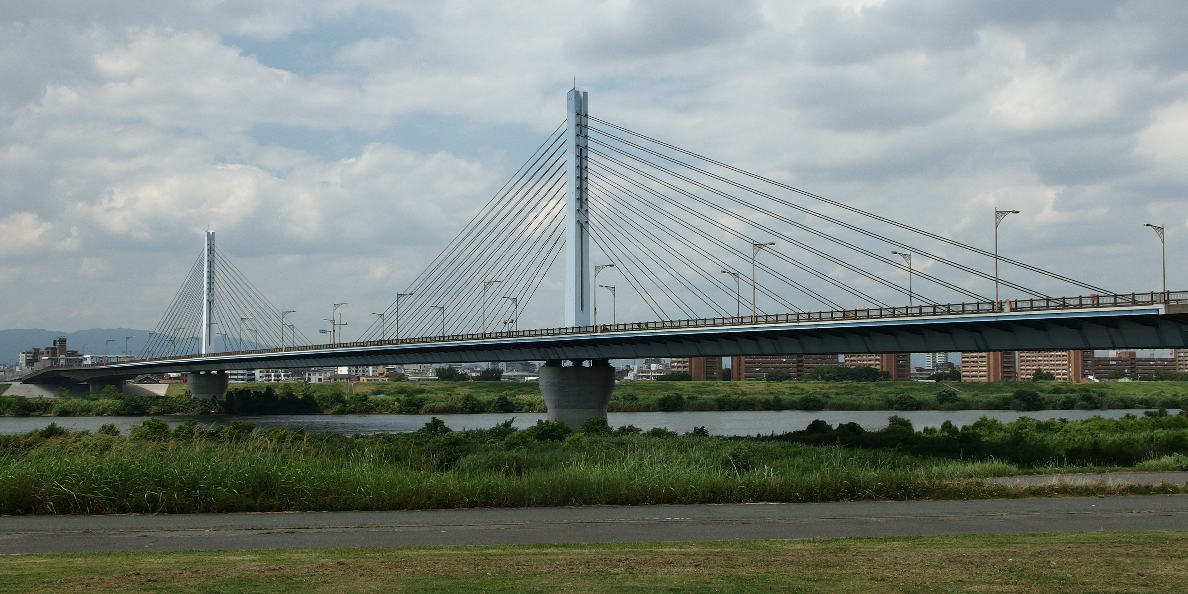 Sugahara_Shirokita_Bridge, Osaka, Osaka Prefecture, Japan